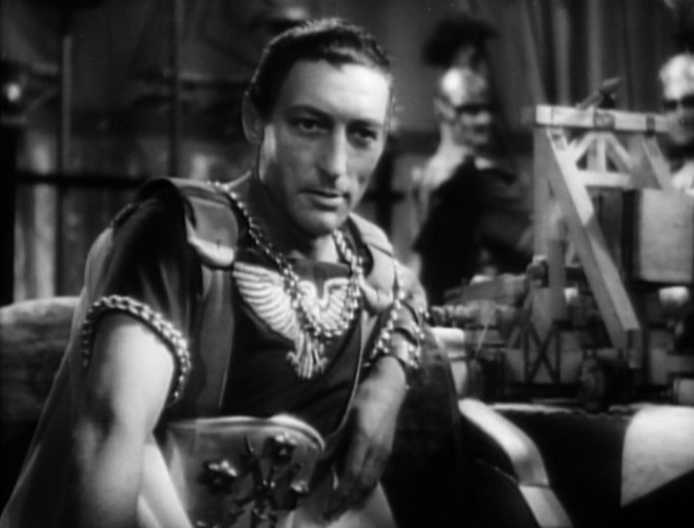 Screenshot of Warren William from the trailer for the film Cleopatra.